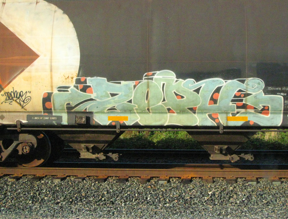 Train by the old school writer Zephyr